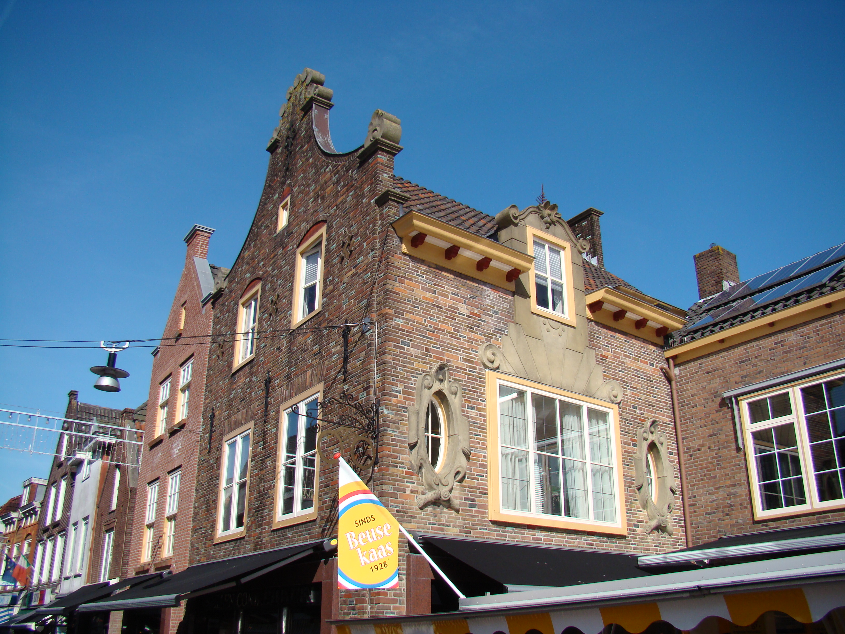 Impressions of the city Purmerend, Netherlands